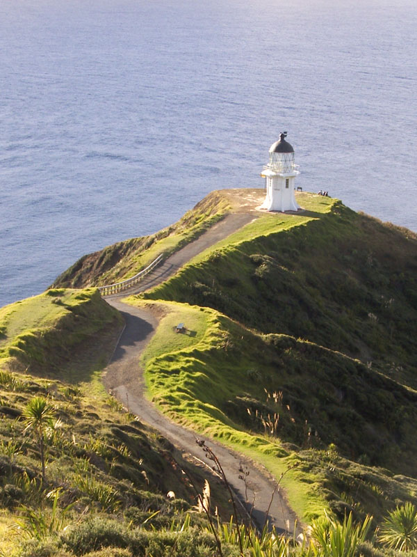 Cape Reinga Lighthouse, Far North, Northland, North Island, New Zealand